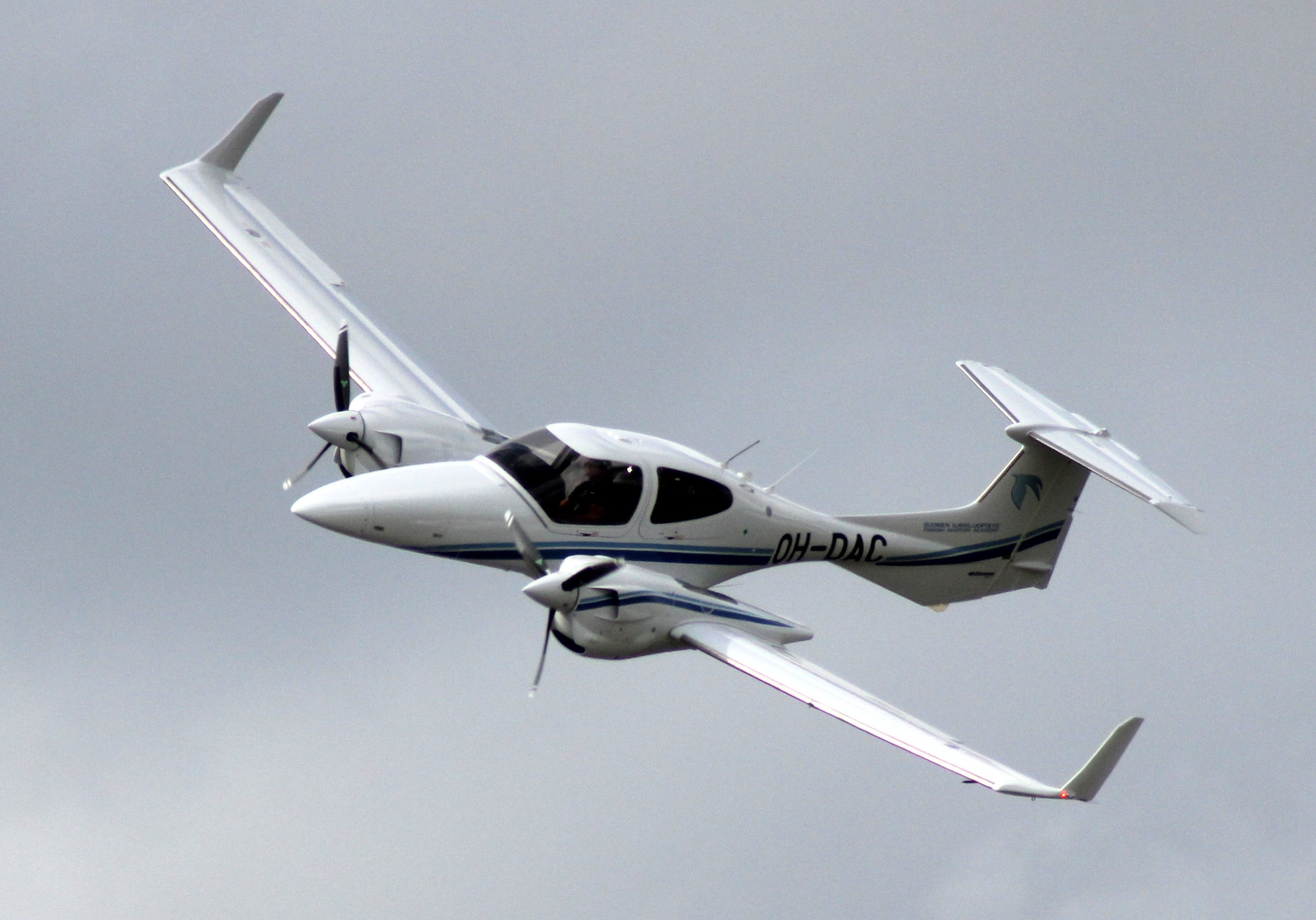 Diamond DA42 Twin Star (OH-DAC) at Tour de Sky 2014 in Oulu.